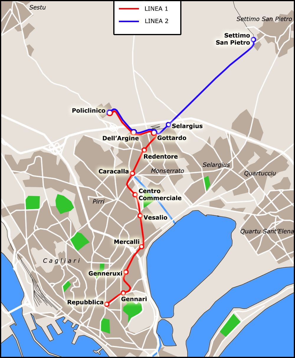 Map of Cagliari light rail.